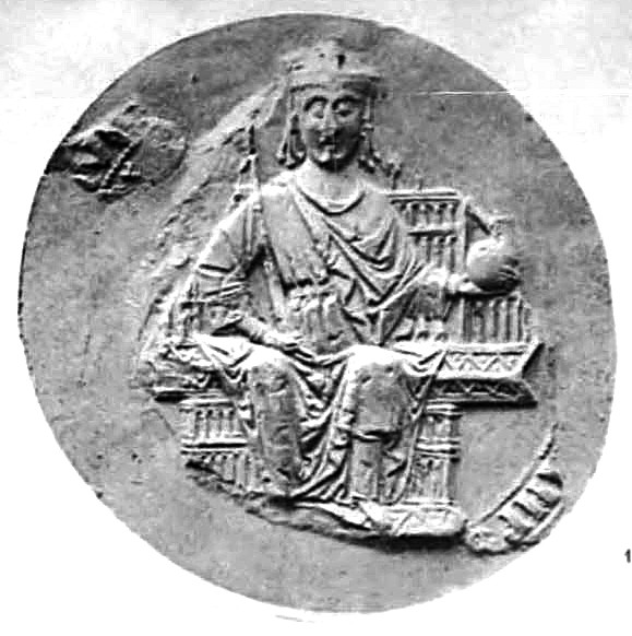 Seal of Philip of Courtenay